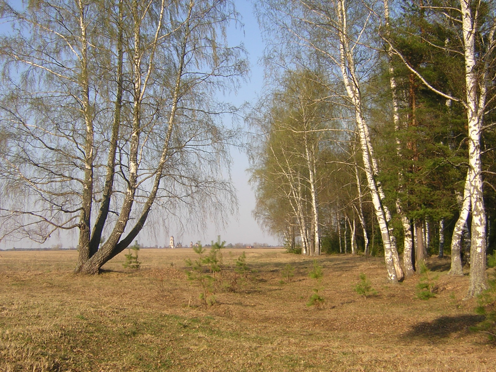 Edge of a Mixed Wood. Ivanovo Oblast, Russia